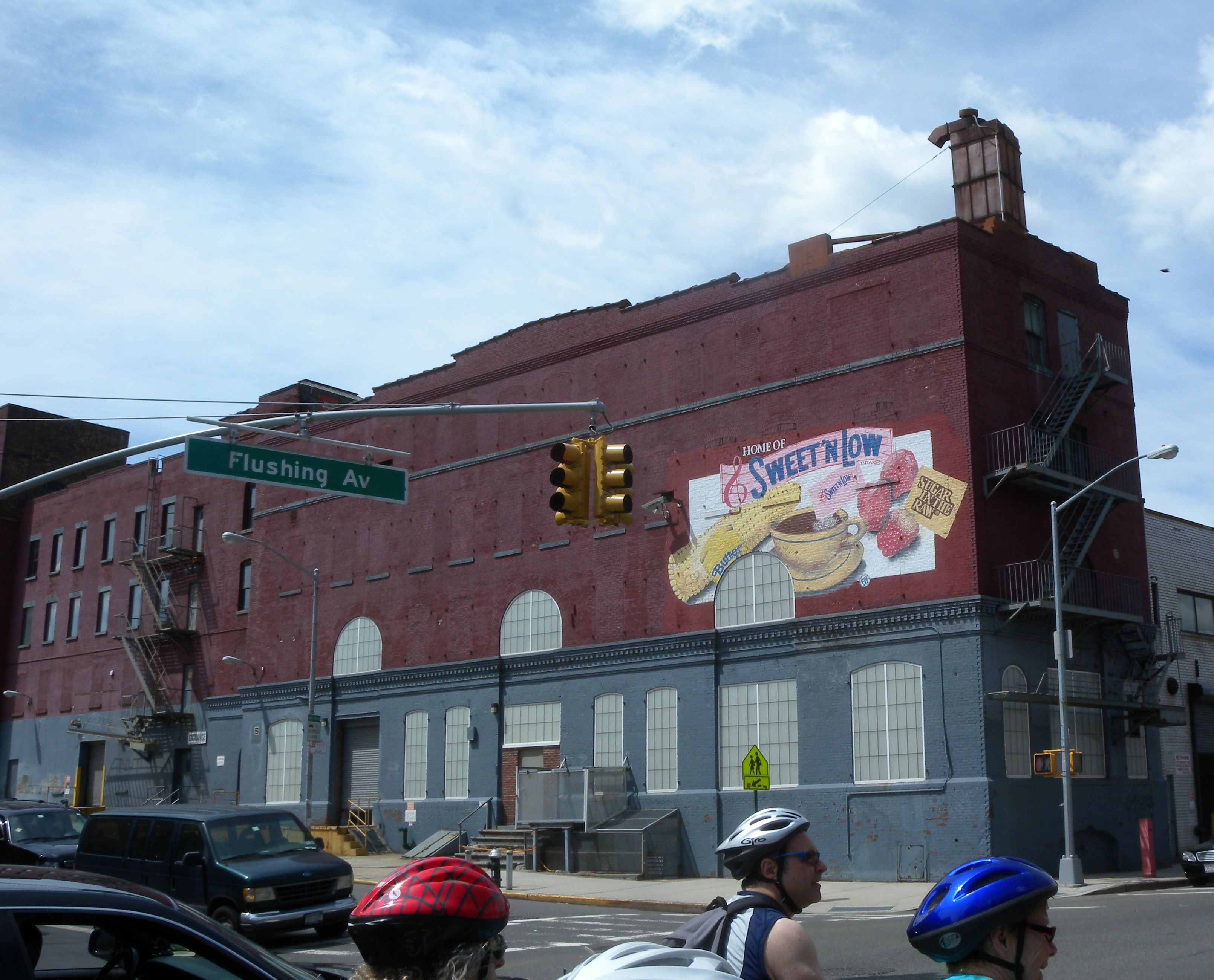 Looking southwest across Flushing Avenue and Cumberland Street at Sweet n Low factory on a sunny morning. ZIP 11205.